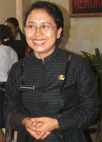 Kusuma Wardhani (retired archer and Head of Education, Youth and Sports Office of Bali)